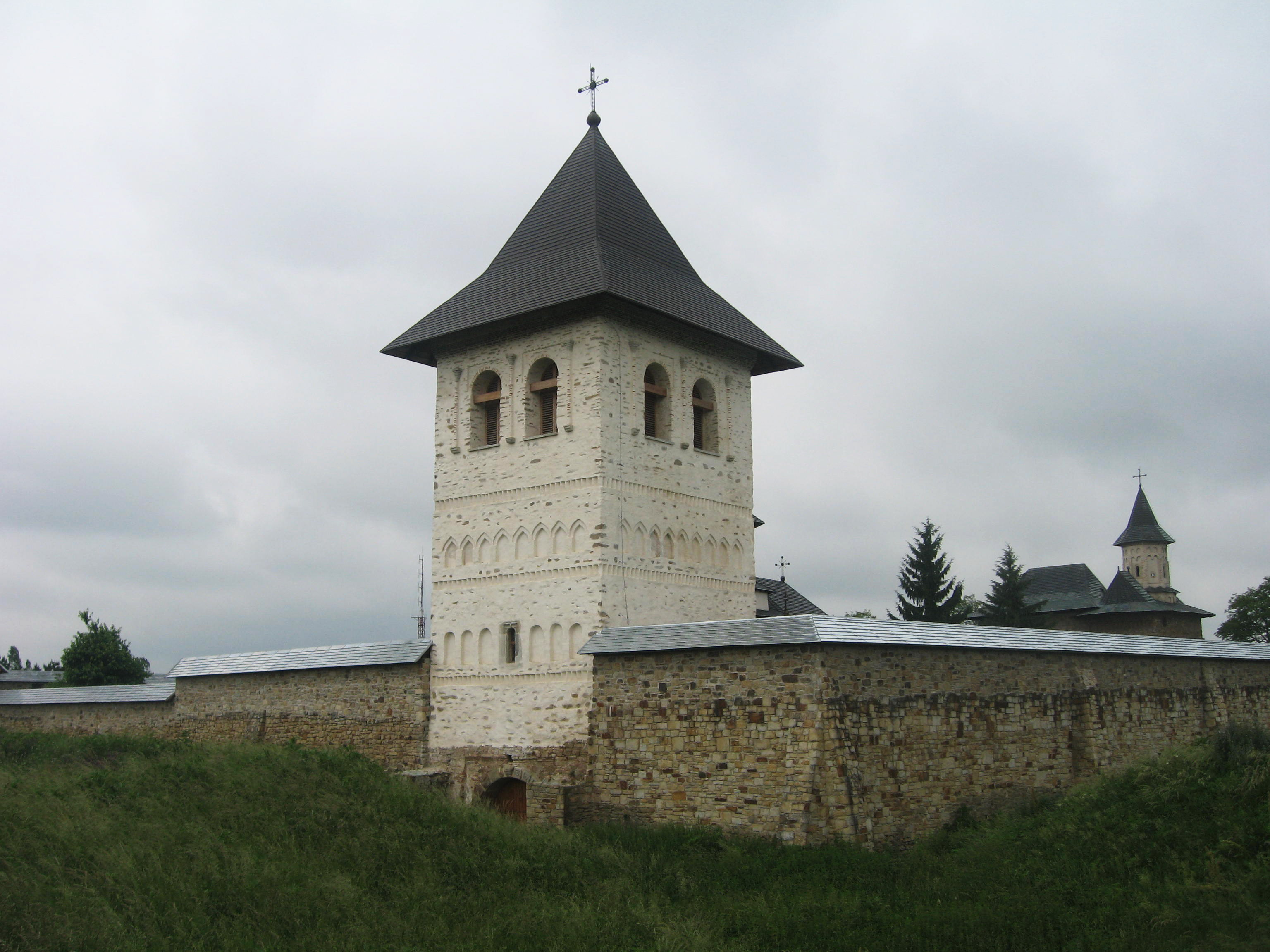 Zamca Monastery in Suceava.